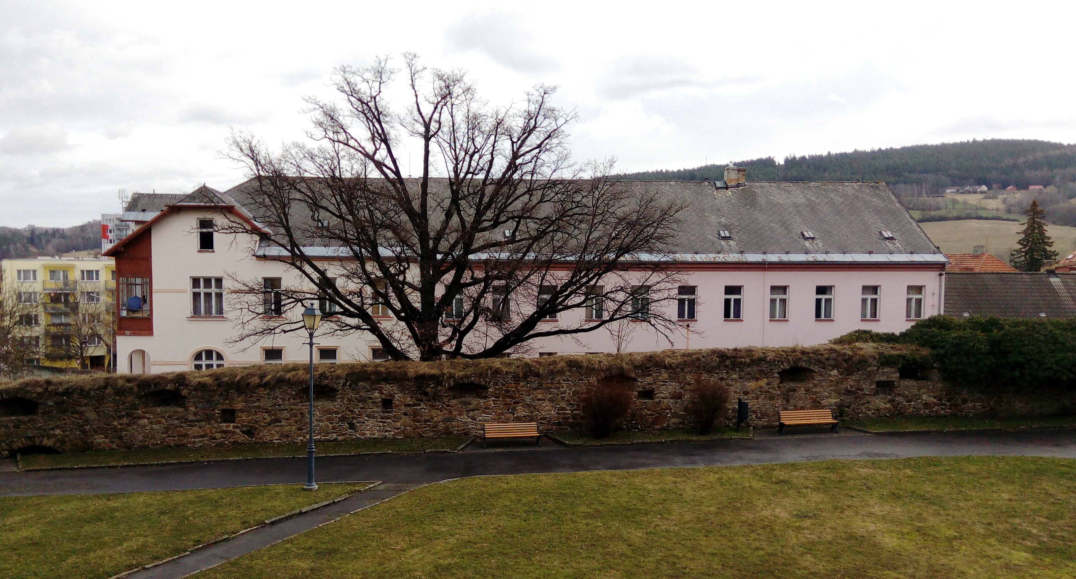 House No 101, Zahradní, Prachatice, south Bohemia, Czech Republic, the native house of writer Hilda Bergmann